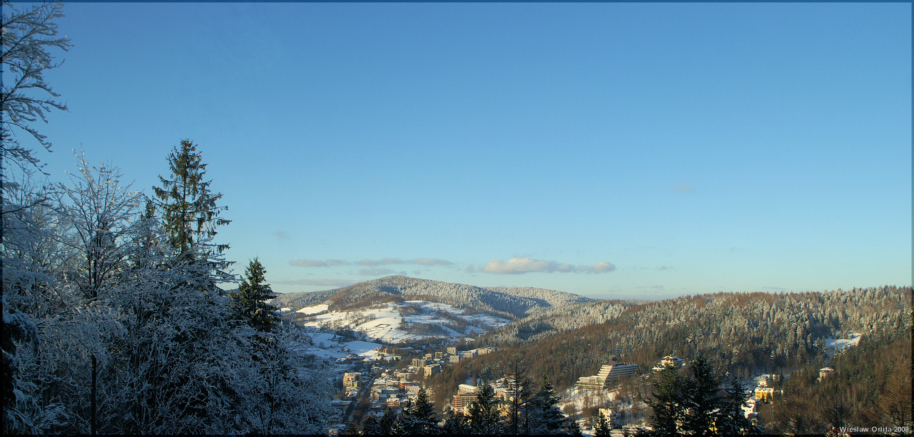 The cloud of type Cumulus the created through mountain rotors (lee waves).